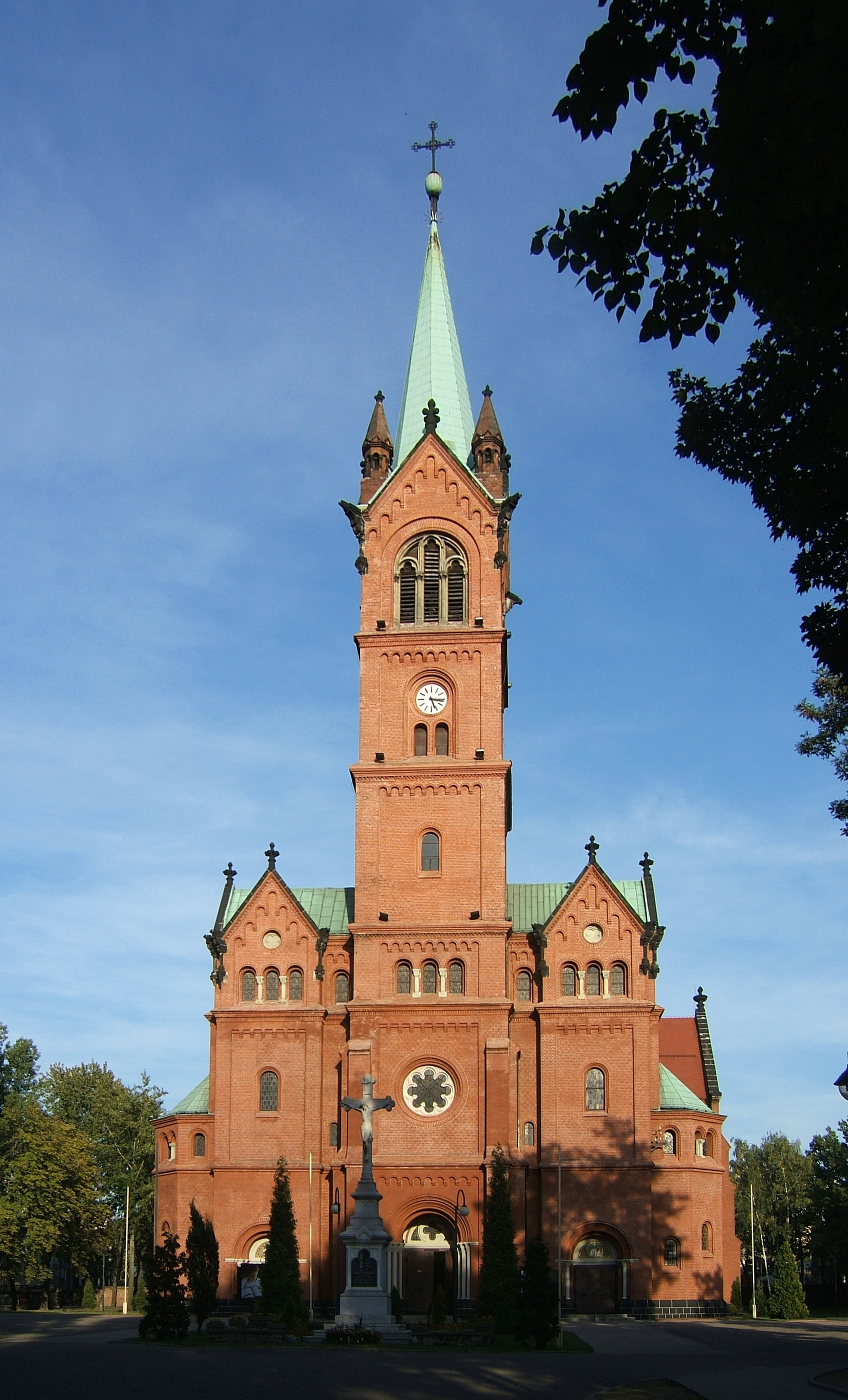 Saint Anne's Church in Zabrze.